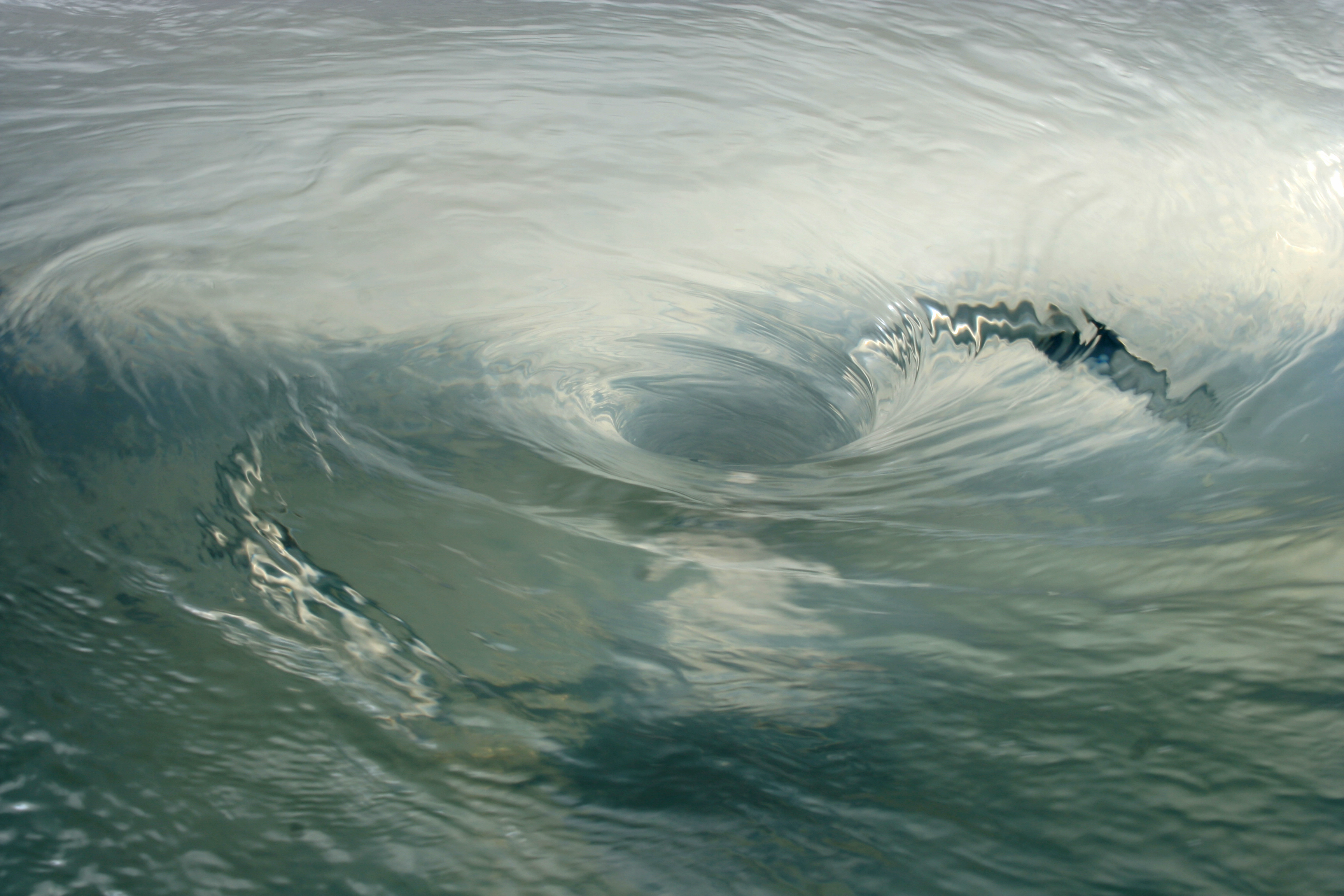 One of William Pye's water sculptures in the Serpent Garden at Alnwick. Vortex - A rising and falling water cycle within a circular dish.